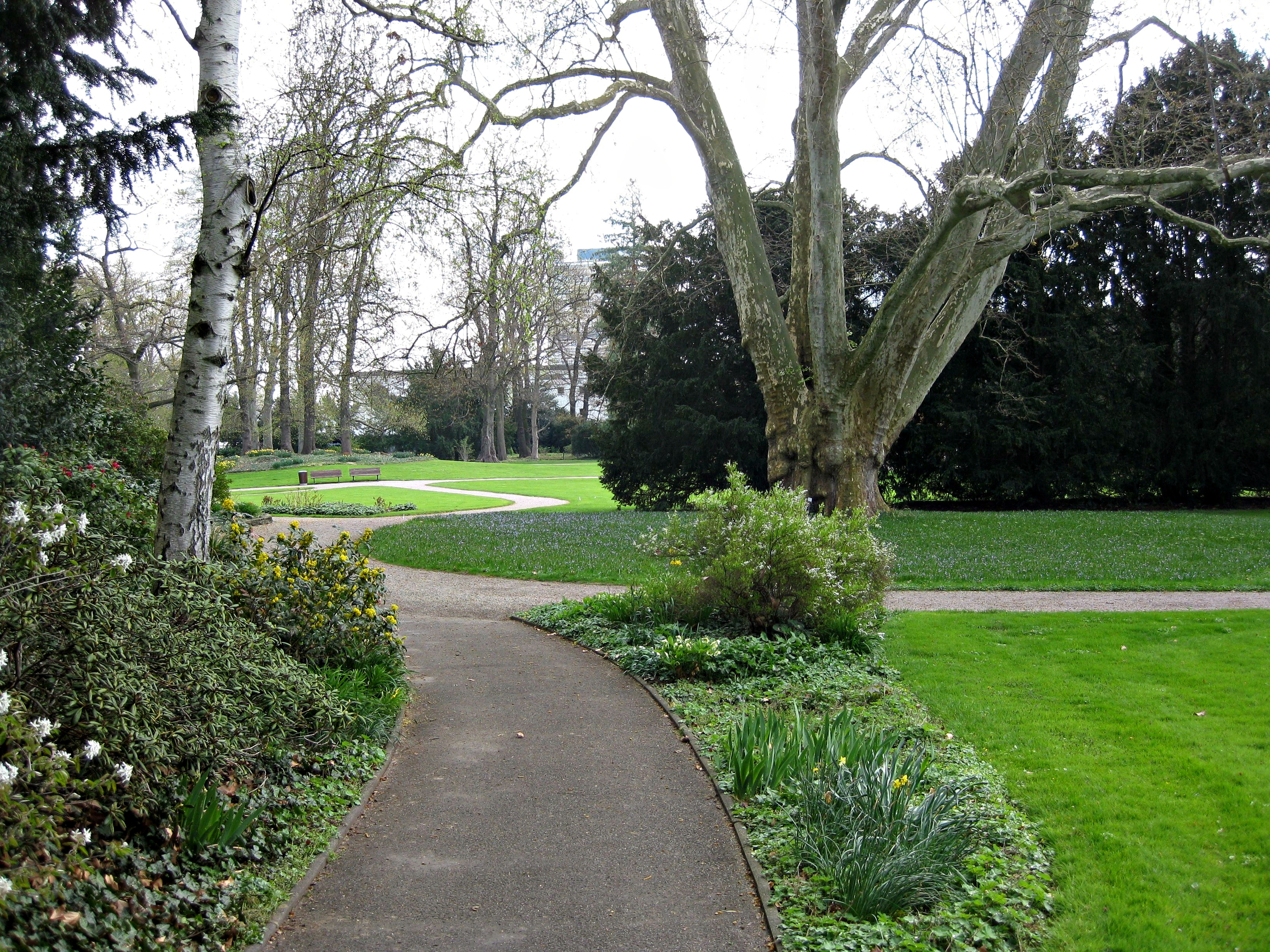 Germany, Bonn: Palais Schaumburg, park.